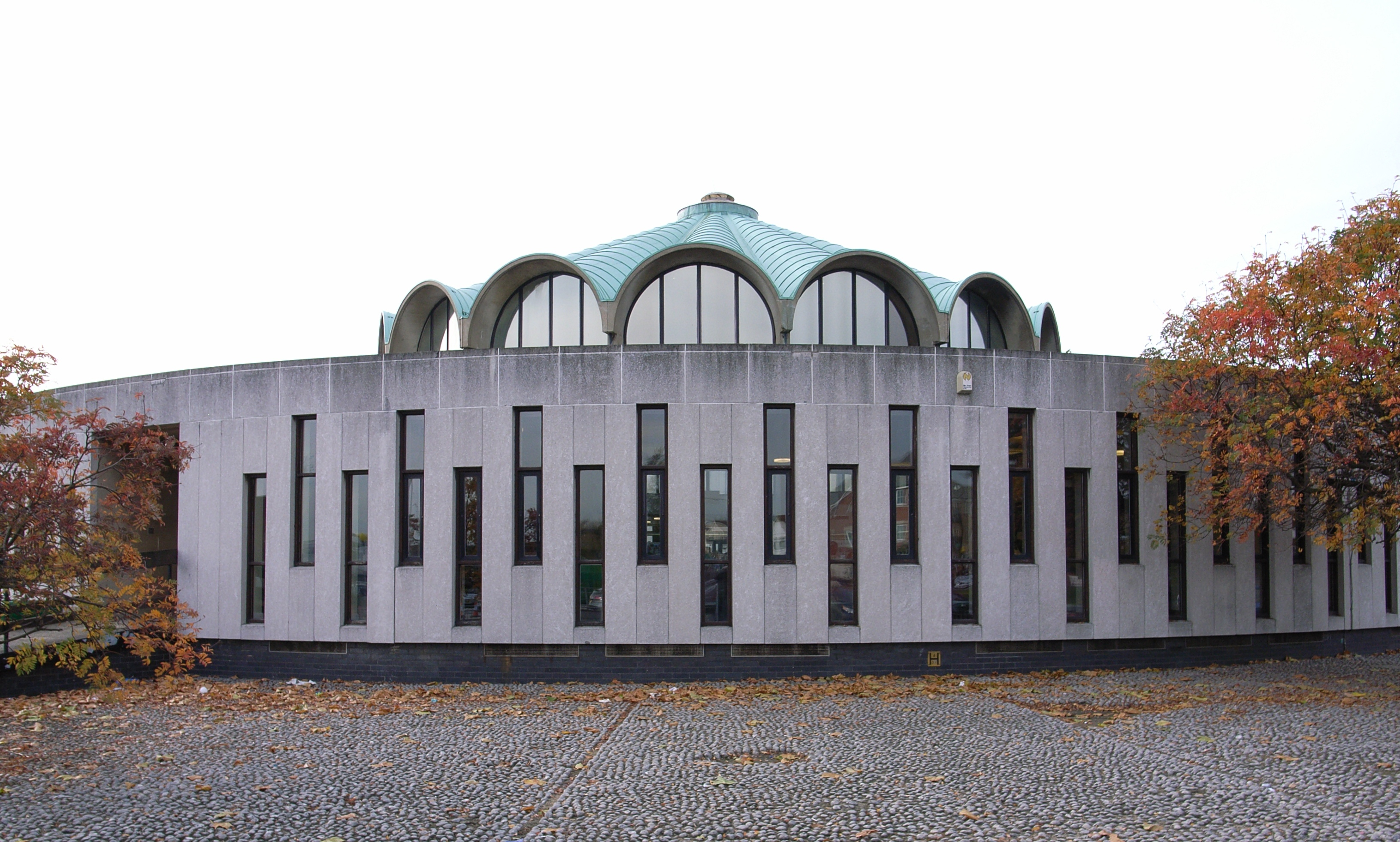 Fulwell Cross Library (1959-68), Ilford by Frederick Gibberd.